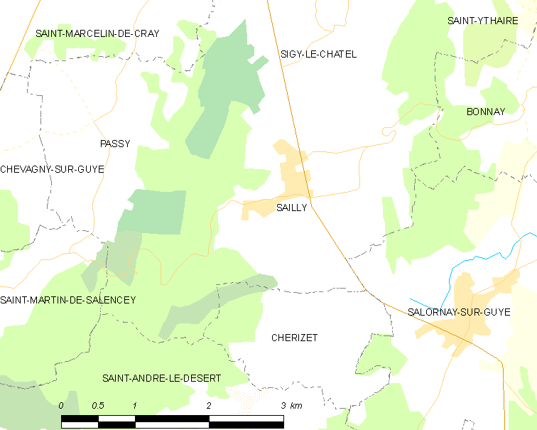 Map of French municipality